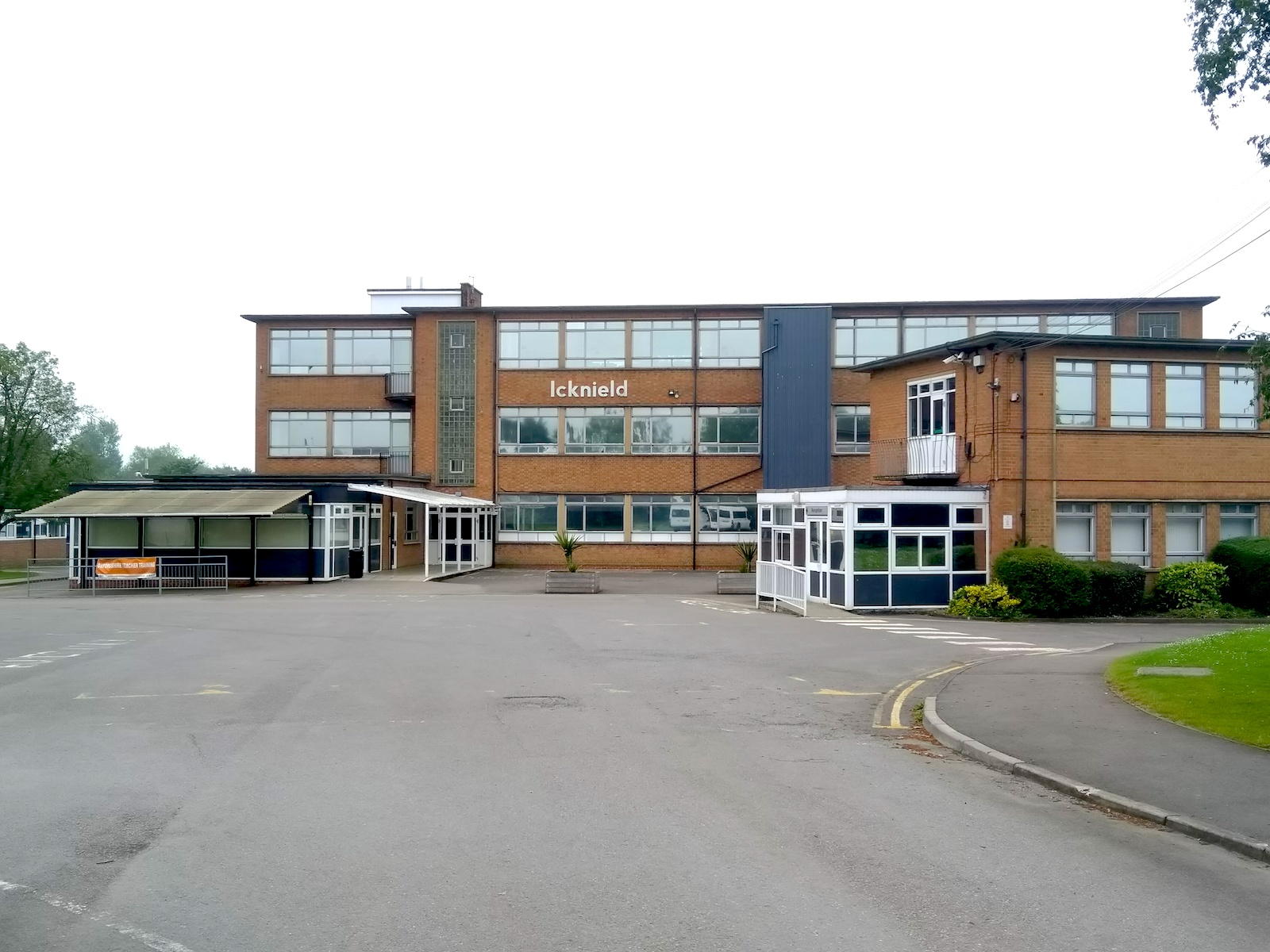 The eastern elevation of the main building of Icknield Community College in Watlington, Oxfordshire UK, taken in May 2018